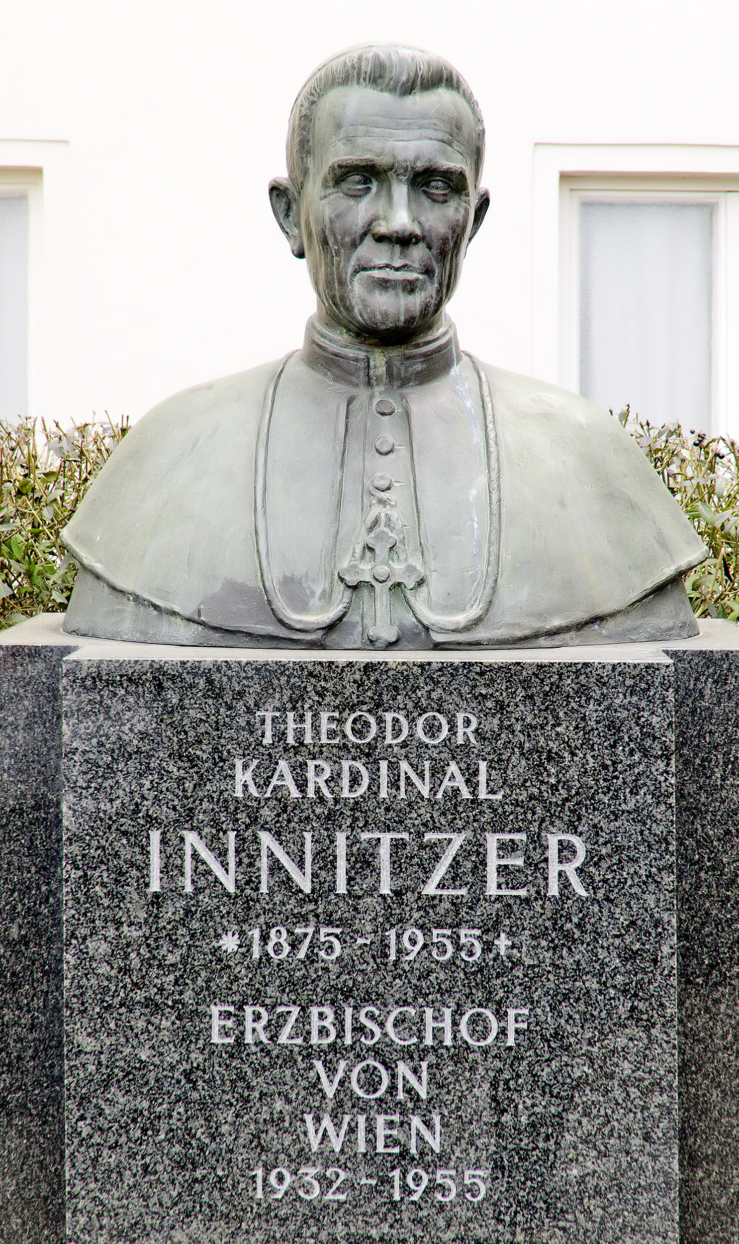 Bust of Cardinal Theodor Innitzer at Kardinal-Innitzer-Platz in Vienna Döbling